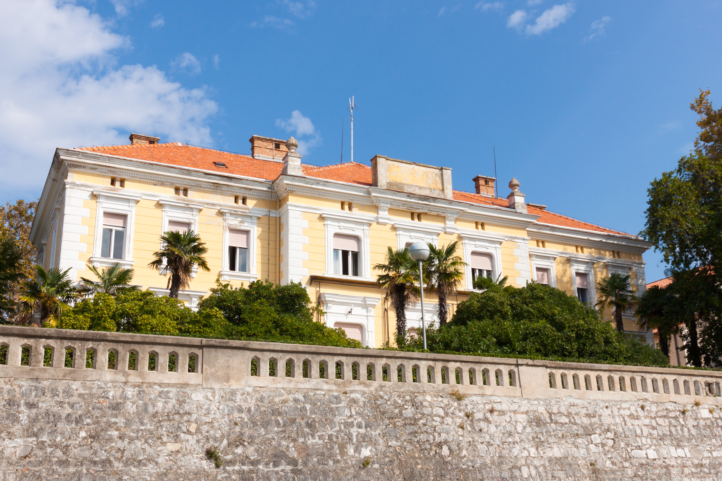 Zadar Government House